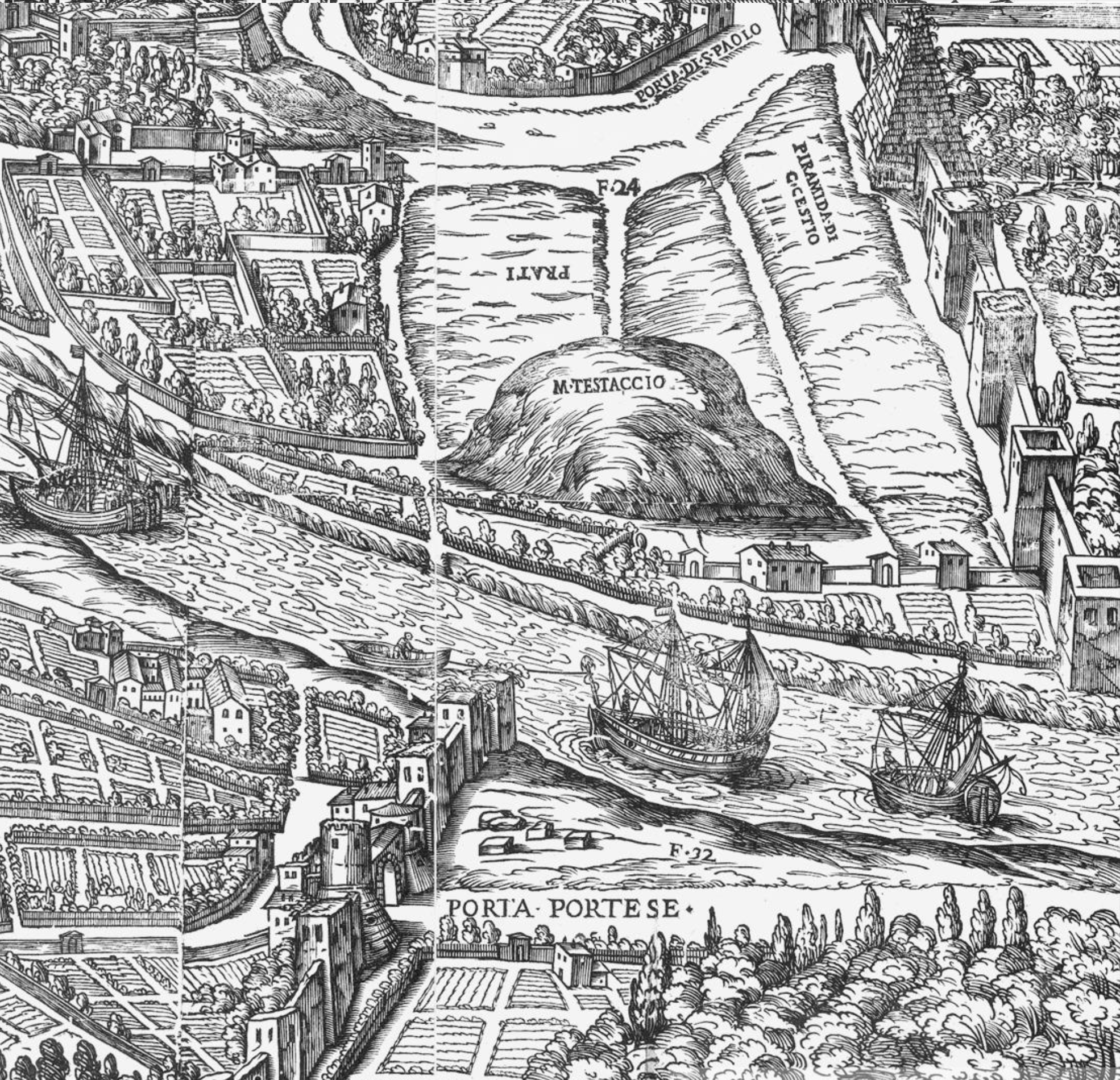 View of the Testaccio district of Rome, 1625